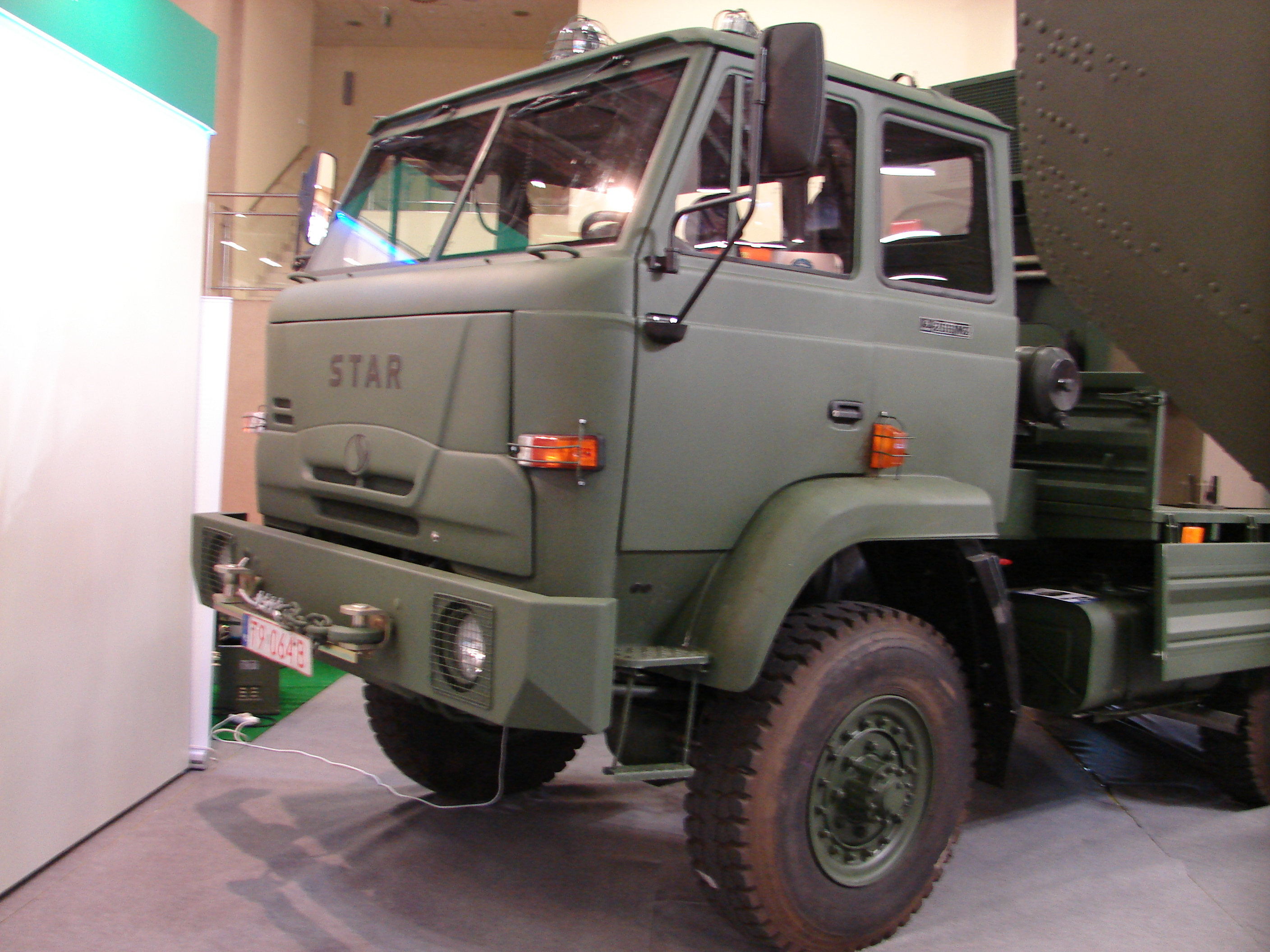 Zmodernizowany Star 266M2